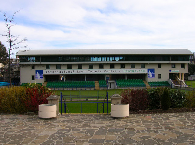 International Lawn Tennis Centre, Devonshire Park Looking across court one to the main stand. During tournaments temporary stands would block this view. Devonshire Park has been home to tennis tournaments since 1881.